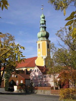 Church in Hochkirch in Saxony, Germany. Map: 51° 9′ N, 14° 34′ E